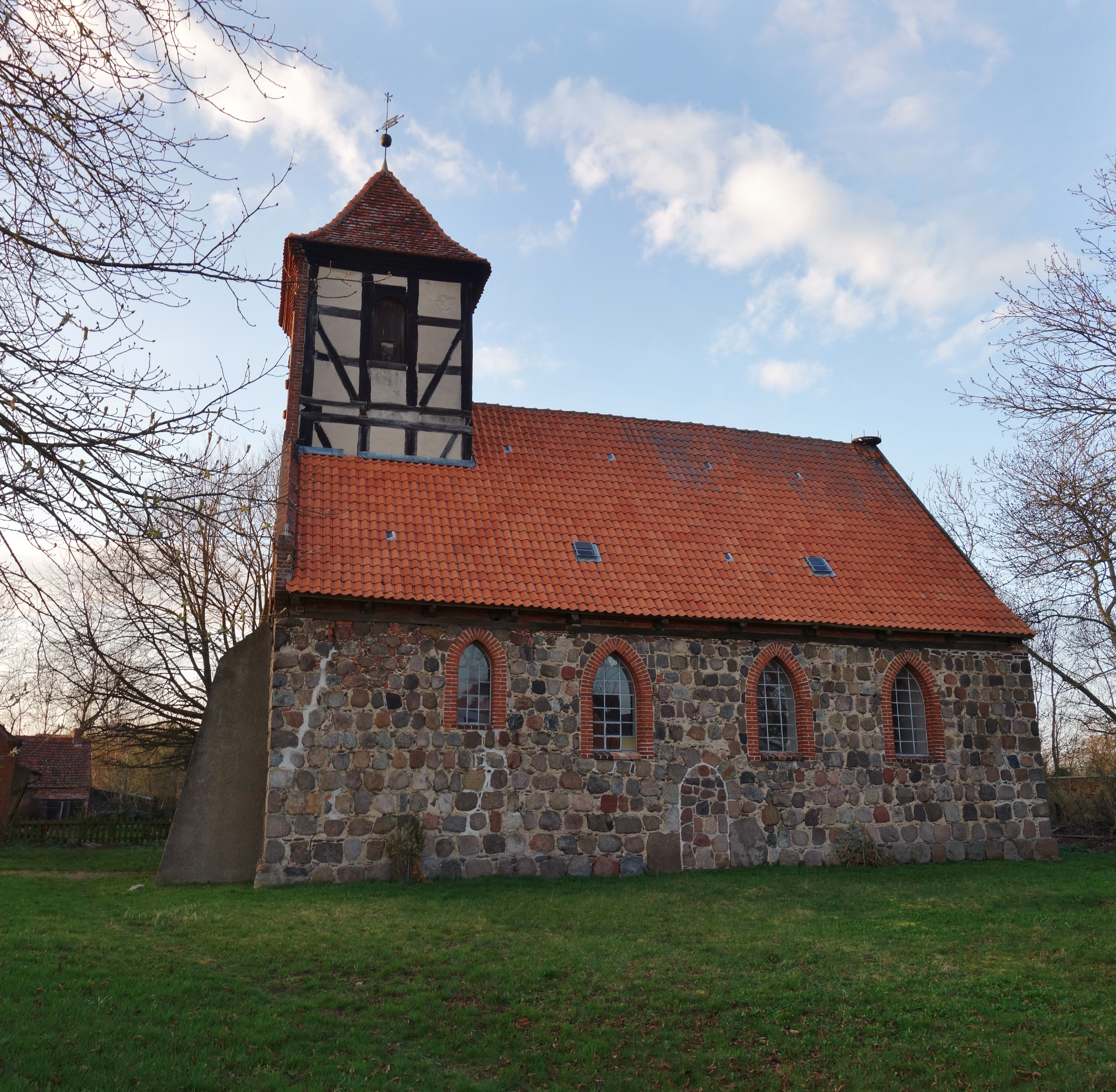 South-eastern view of church in Schlepkow, Uckerland municipality, Uckermark district, Brandenburg state, Germany